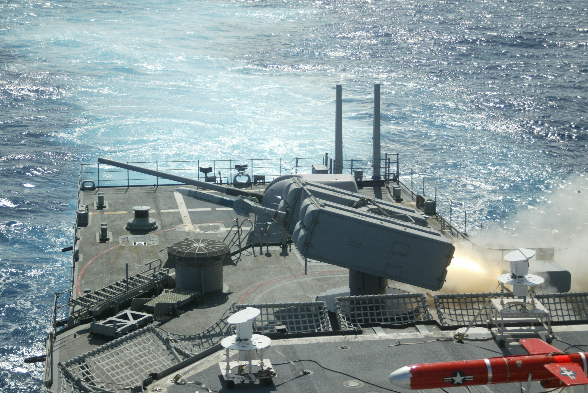 At sea aboard USS O'Brien (DD 975) Nov. 5, 2003 -- USS O’Brien launches a surface-to-air NATO Sea Sparrow missile during MISSILEX 04-1. MISSILEX 04-1 involves firing missiles at controllable target drones provided by Commander Fleet Activities Okinawa’s ordnance department. The drones were launched from O’Brien and each missile fired was equipped with telemetry-gathering instrumentation to provide an accurate assessment of missile performance. U.S. Navy photo by Ensign Kristin Dahlgren. (RELEASED)